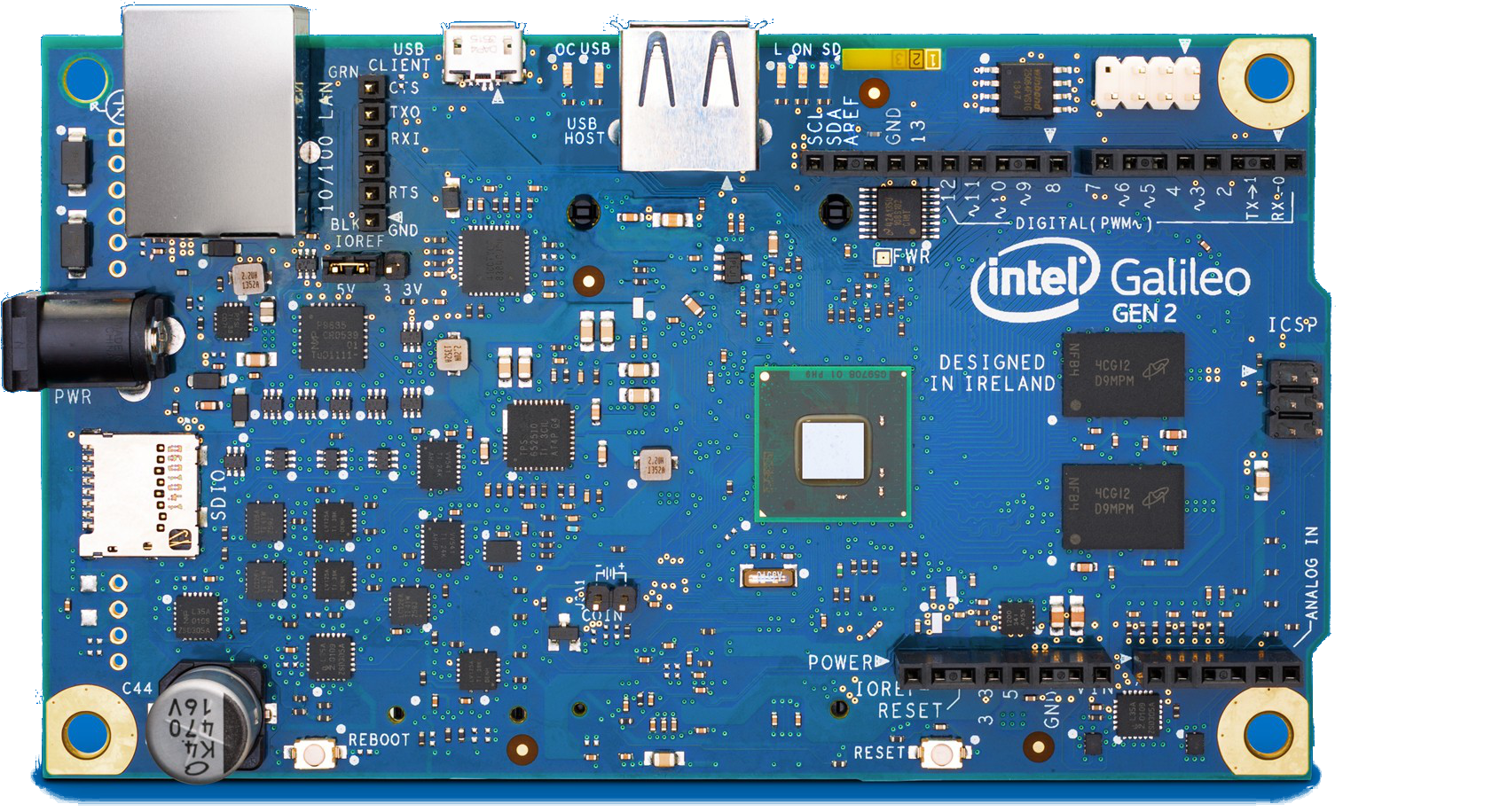 Phot of Intel Galileo Gen2 assembled board